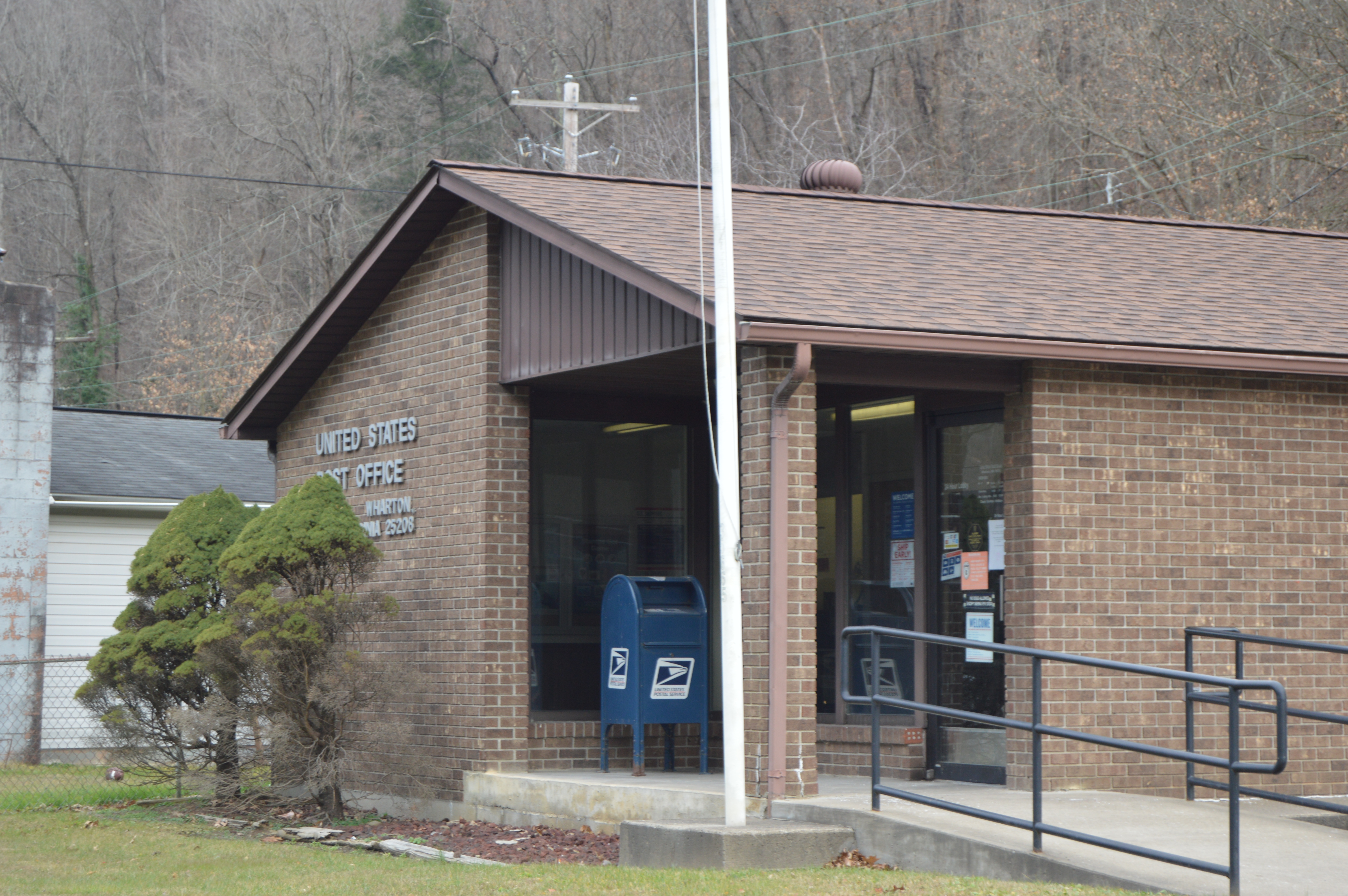 Front of the Wharton post office, located on West Virginia Route 85 at Wharton in Boone County, West Virginia, United States.